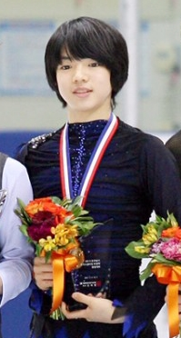 Cha Jun-Hwan 2015 ranking competition